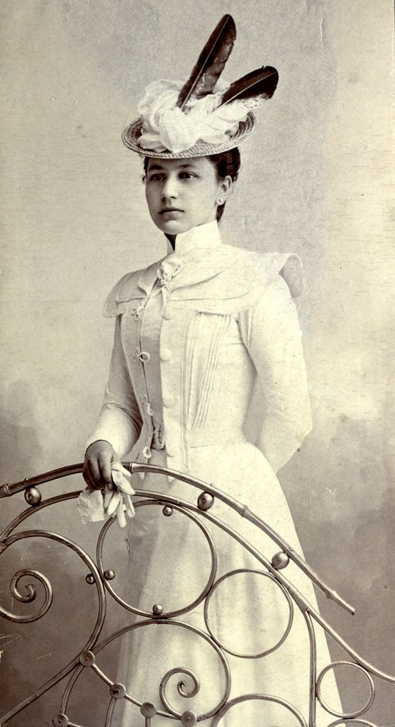 Hubert Kessler's mother in 1899